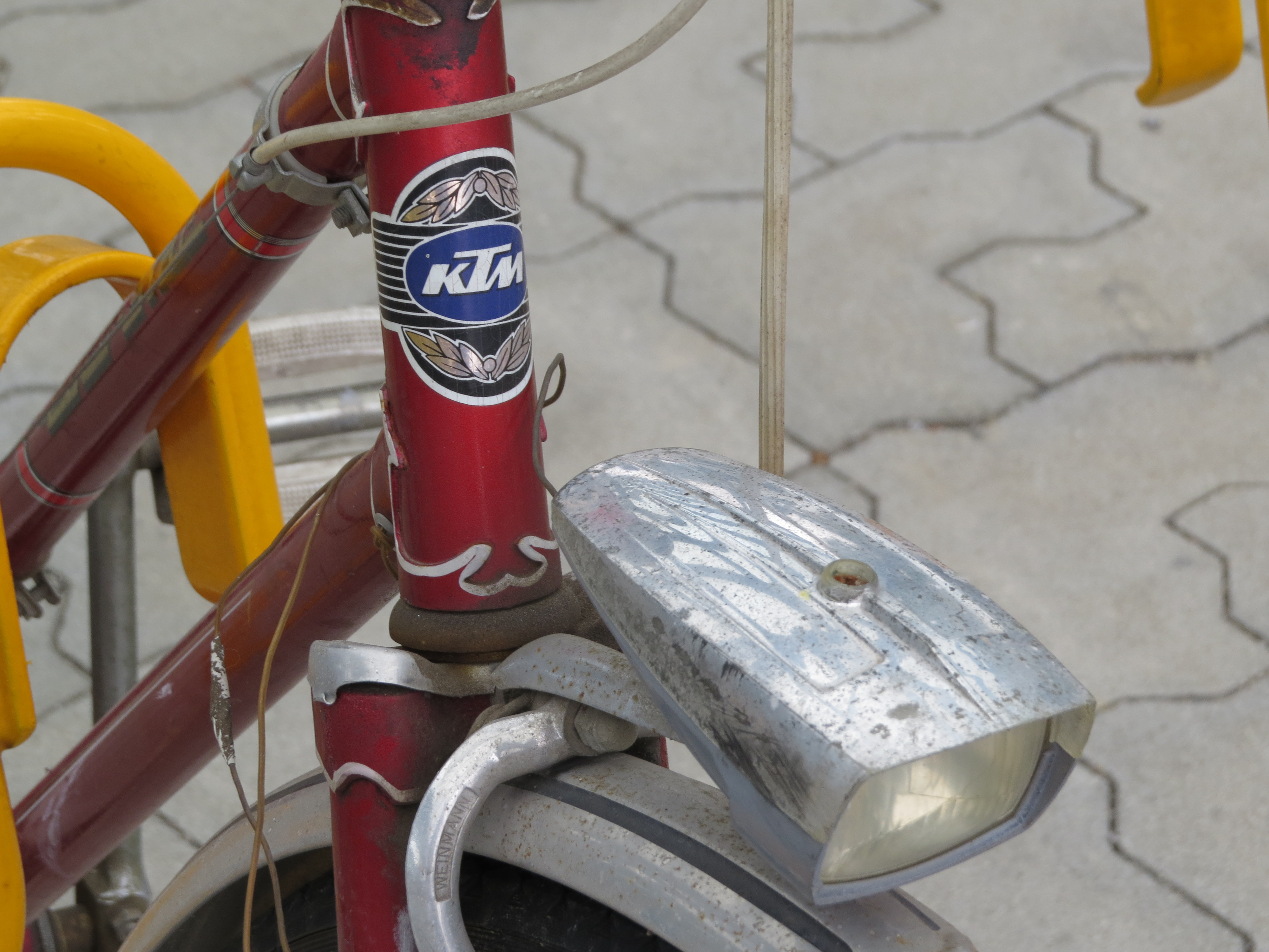 KTM Euro-Star bicycle at Bahnhof Melk